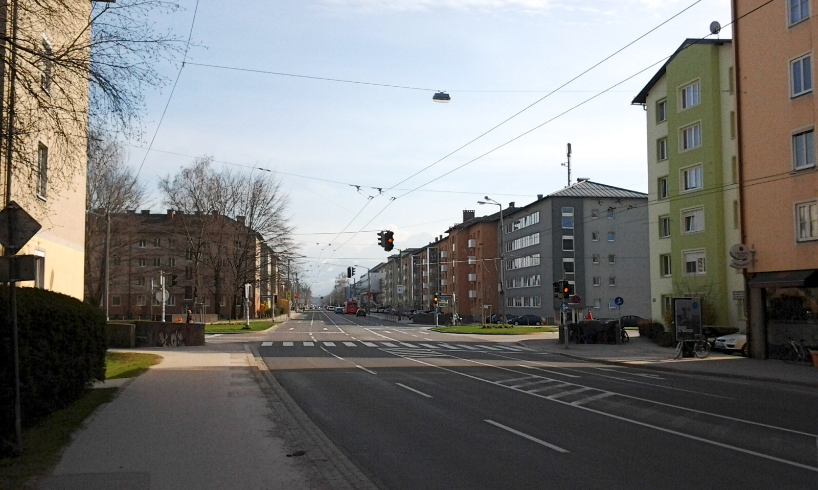 Alpenstraße, city of Salzburg, Austria (leading to the Alps south of Salzburg) and part of Josefiau estate